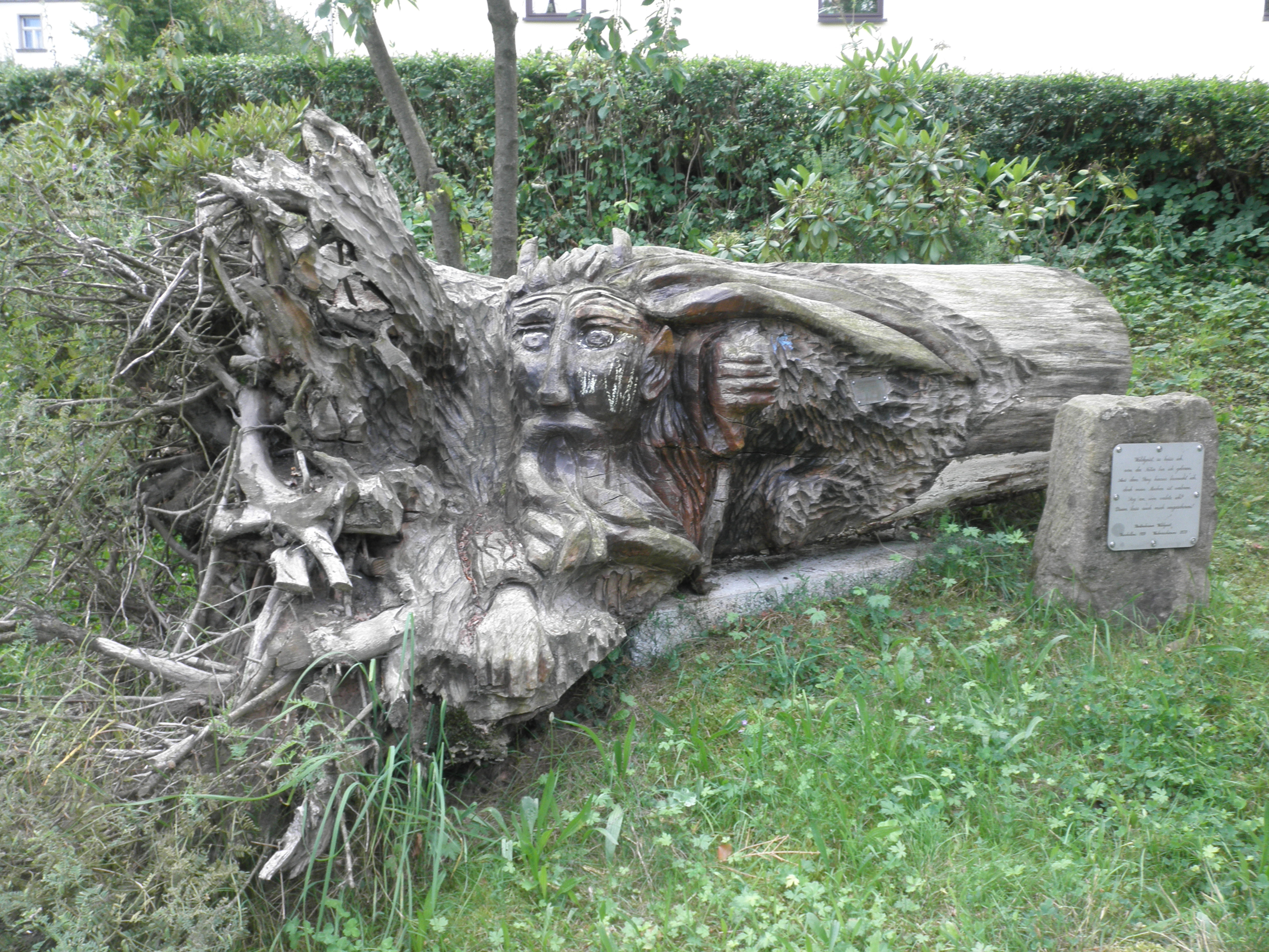 Monument in Breitenhain (Neustadt an der Orla) in Thuringia